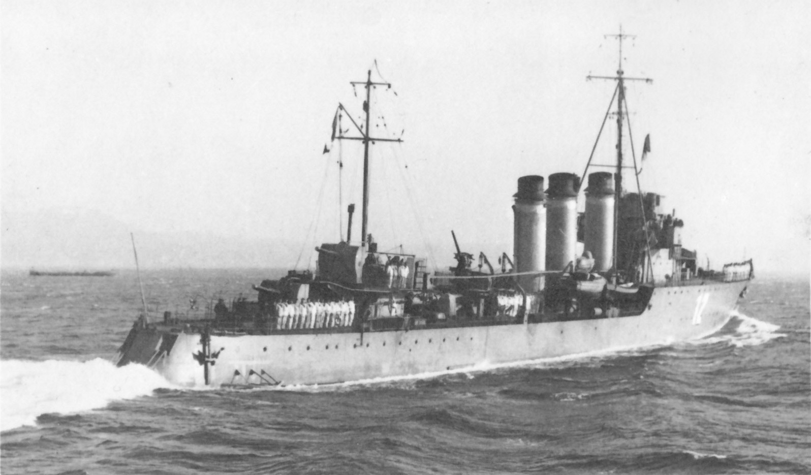 The French destroyer Bourrasque, launched in 1925, at the time of entering service. Description from Francis Dousset: Les Navires du Guerre Francais, page 158.